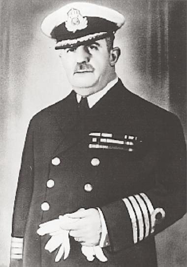 Stylianos Lykoudis (1878-1958), long-time director of the Greek Navy's Lighthouse Service, as Captain, ca. 1935-39